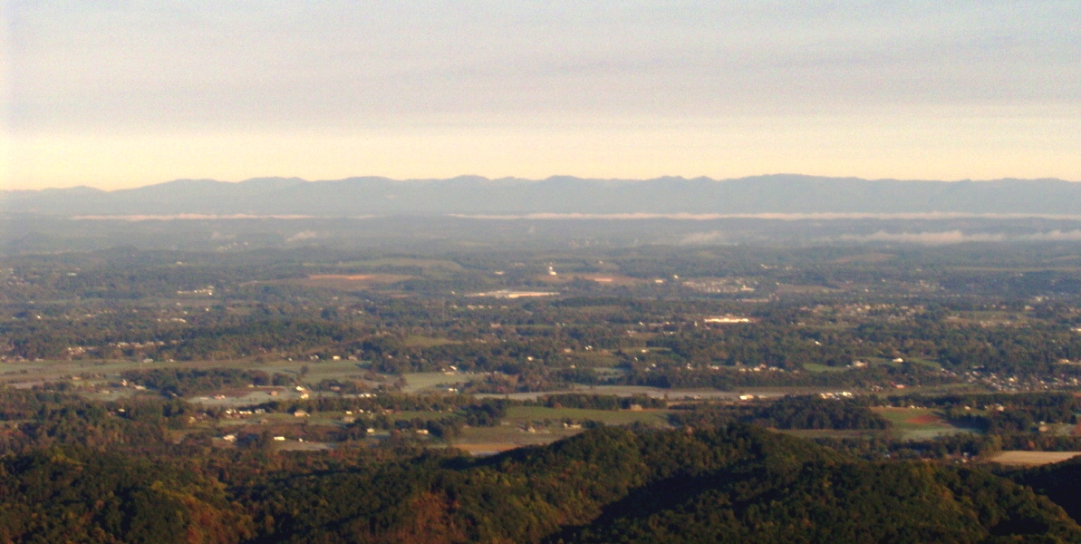 The western half of Blount County, Tennessee, looking northwest from Look Rock along the Chilhowee section of Foothills Parkway (Southeastern U.S.). The Cumberland Plateau spans the horizon.